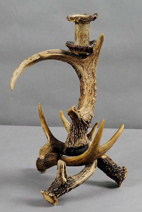 rustic candle holder made of horns from the deer, spout made of turned antler pieces, Germany circa 1880